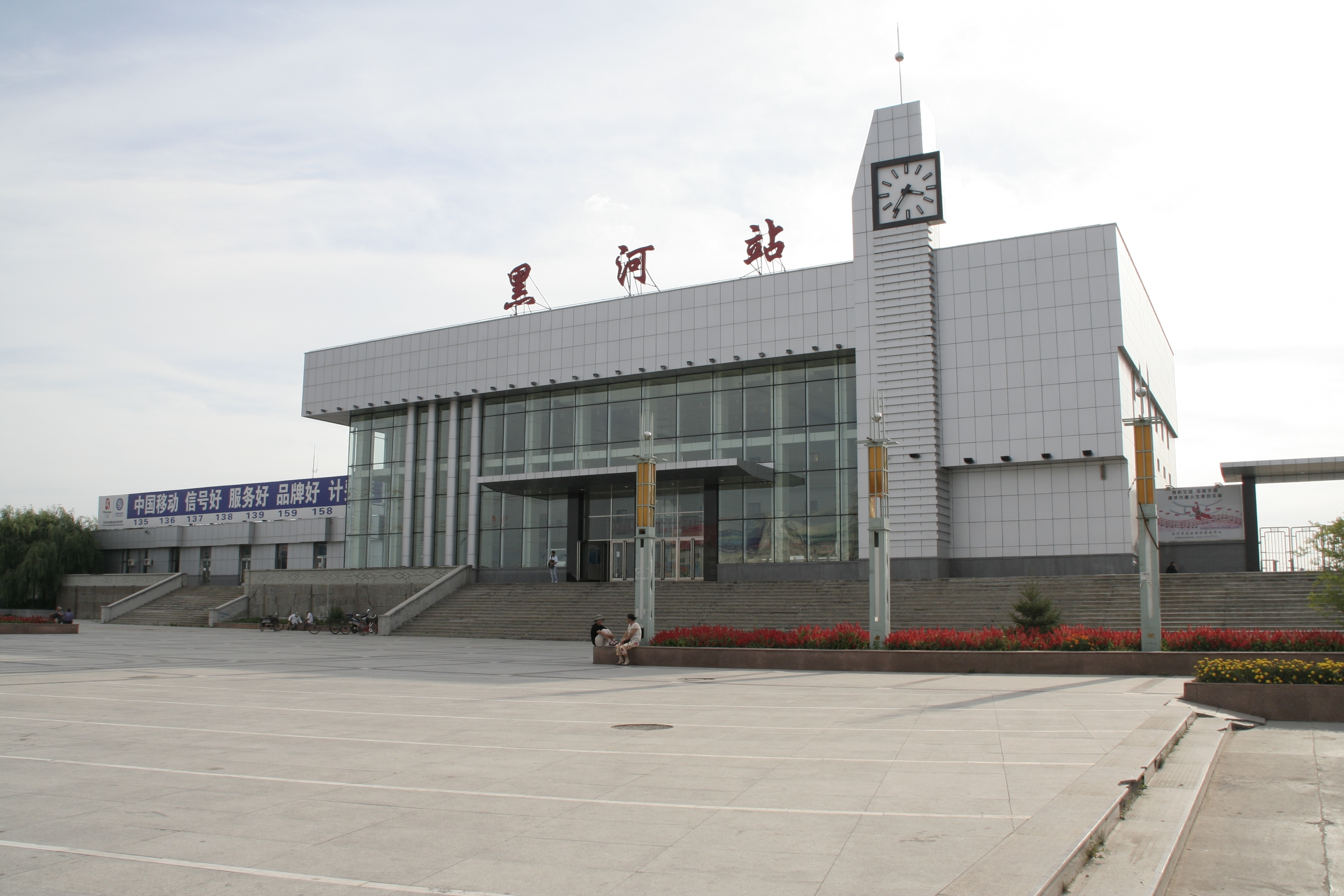 Heihe railway station